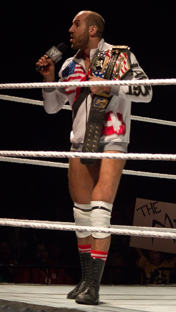 Antonio Cesaro with his WWE United States Championship during a WWE house show on February 2, 2013 in Montgomery, Alabama.